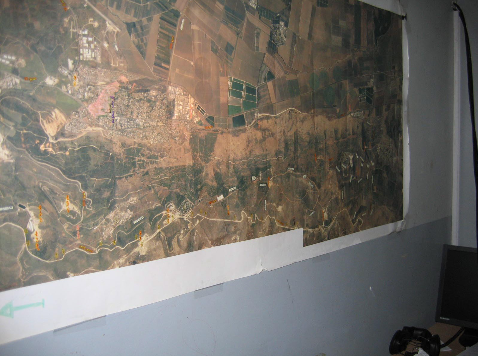 August 10, 2006 An aerial snapshot used by Hezbollah in which the terror group documented the data they collected regarding IDF deployment on the northern border.